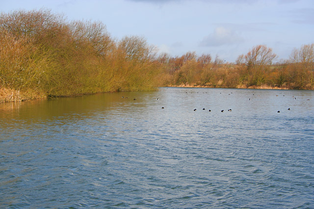 Priory Lakes, near Kirby Bellars. Looking north from the Leicestershire Wildfowler's Association office.